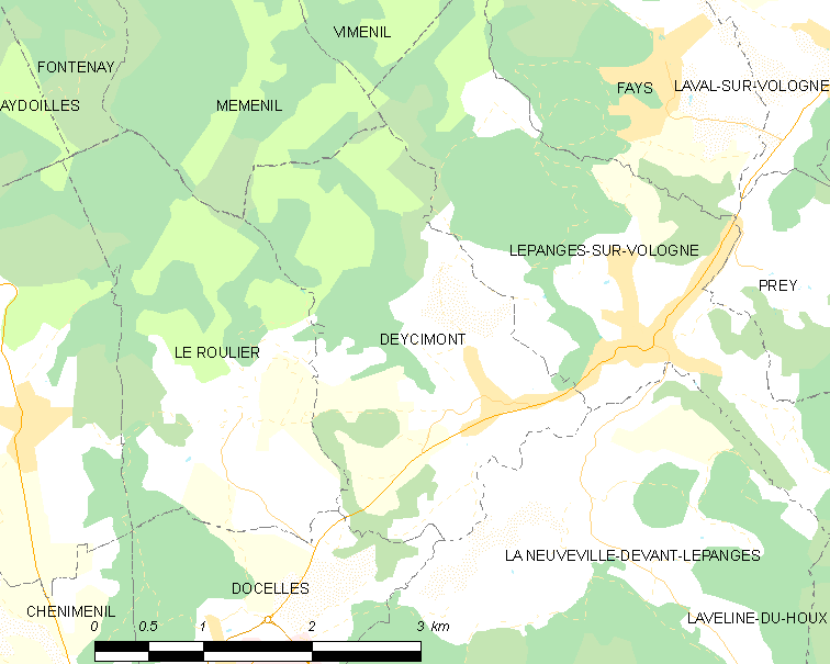 Map of French municipality Deycimont